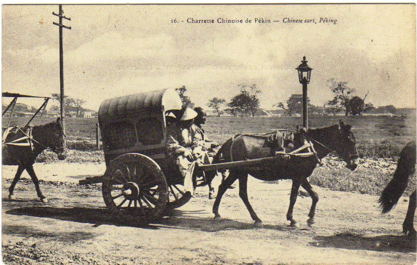 北京官方马车队。Chinese cart, Peking.